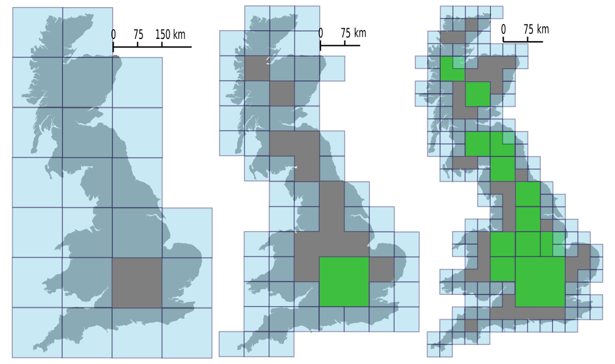 Adapted from File:Great_Britain_Box.svg